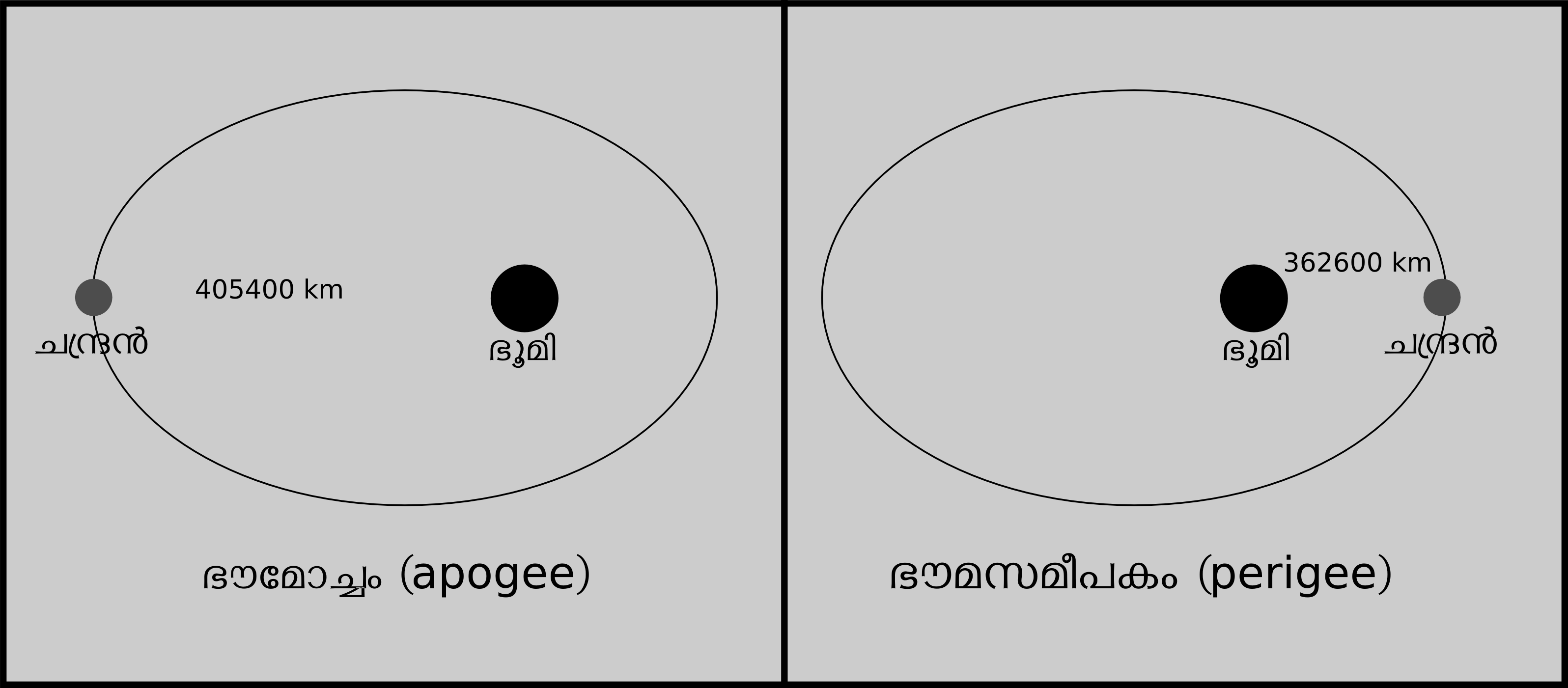 Apogee and perigee of the Monn